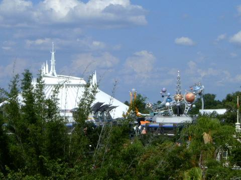 Tomorrowland at the Walt Disney World Resort's Magic Kingdom, as seen from the Swiss Family Treehouse.